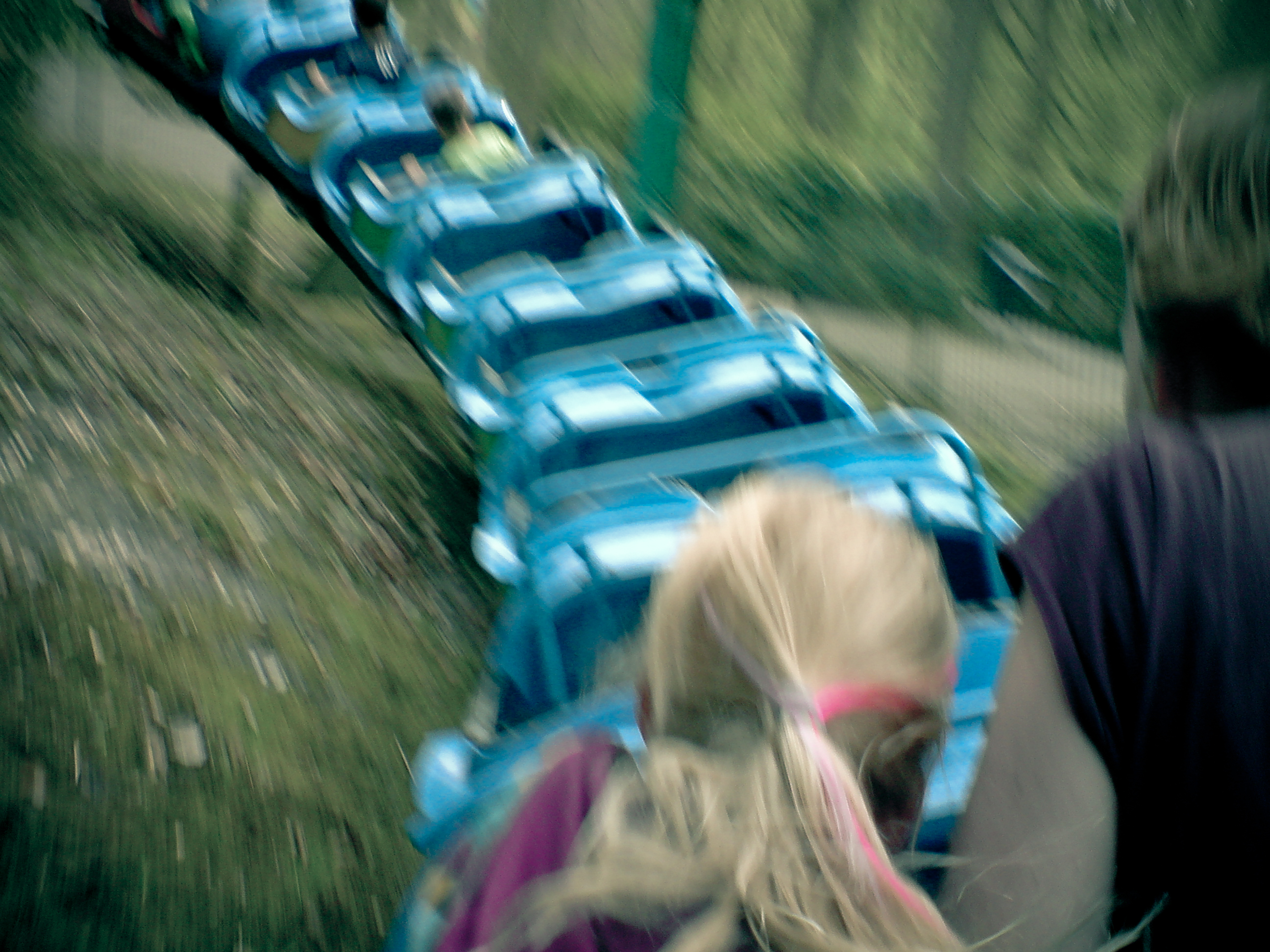 The Kikkerachtbaan (